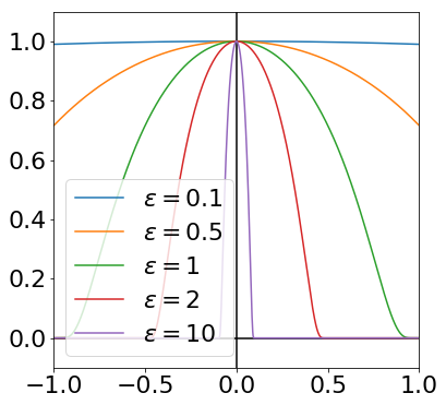 The bump function is sometimes used as a Radial basis function. It has a compact support and leads to sparse interpolation matrices.